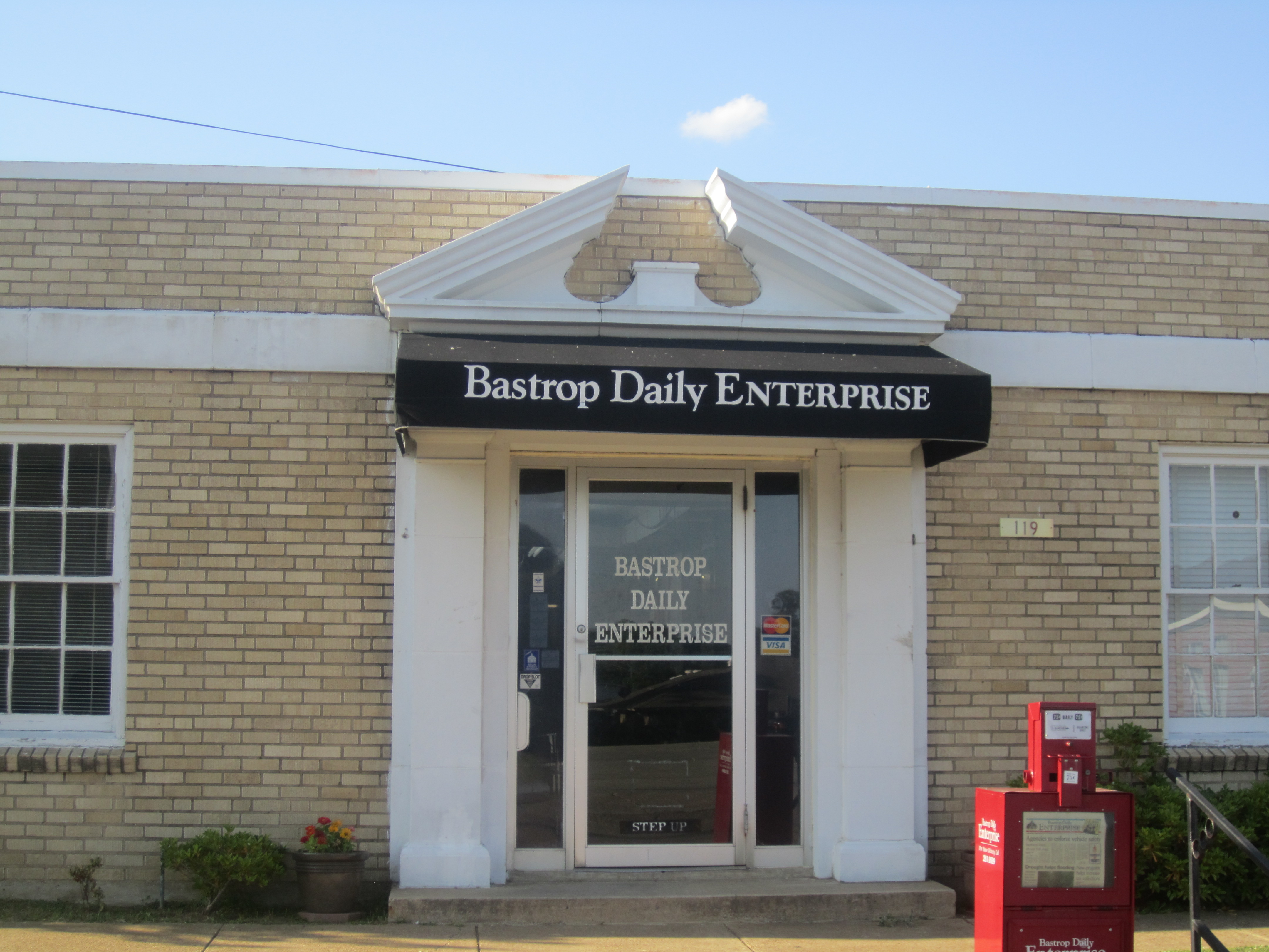 I took photo of Bastrop Daily Enterprise office in Bastrop, LA, using a Canon camera.